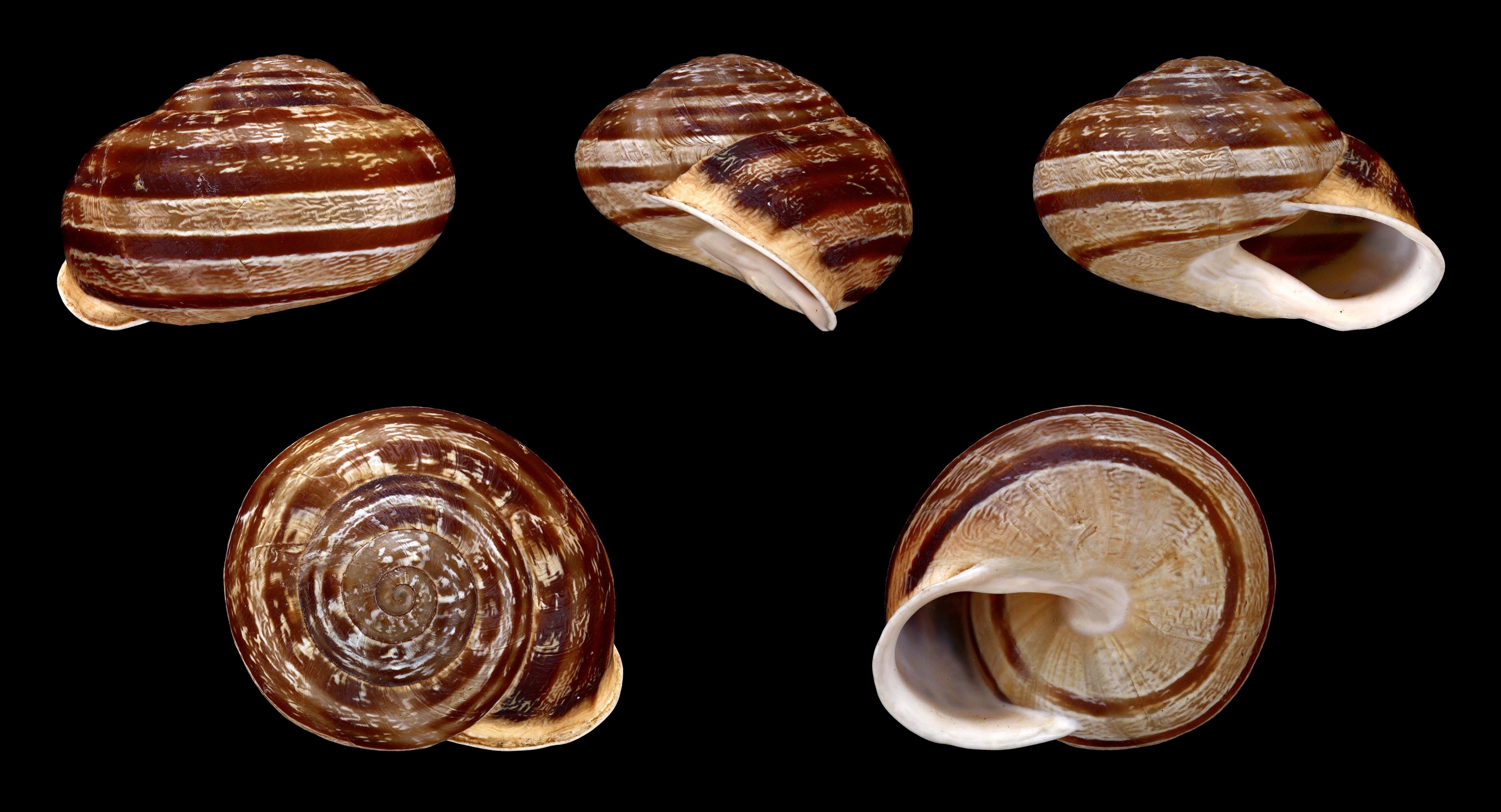 Eobania vermiculata (Müller, 1774) , Chocolate-band Snail; diameter 2.8 cm; Originating from a wall of the castellum of Kos town, Kos, Greece, 36°53′43.32″N 27°17′25.49″E / 36.8953667°N 27.2904139°E; Shell of own collection, therefore not geocoded.